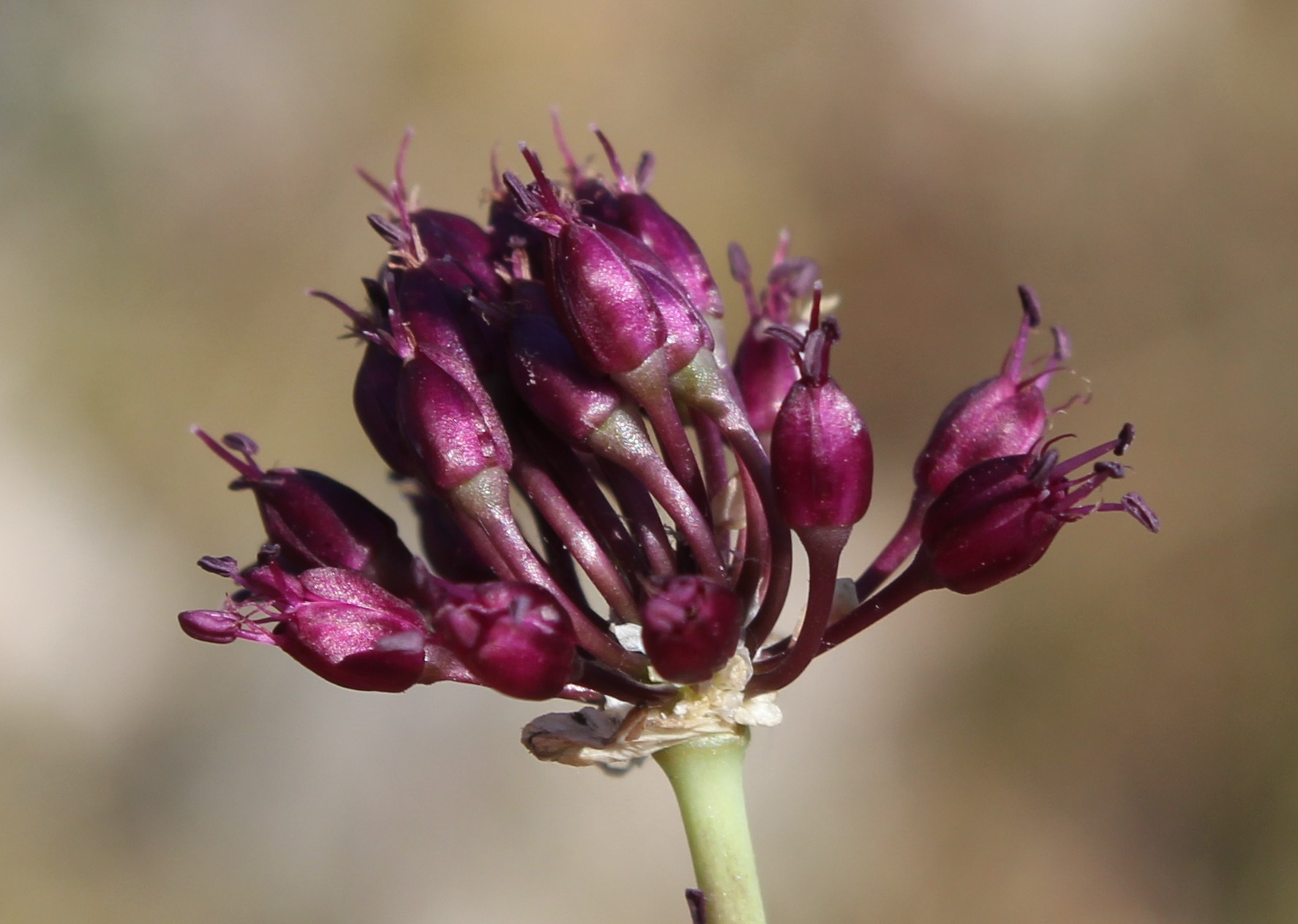 Allium atroviolaceum pedicel